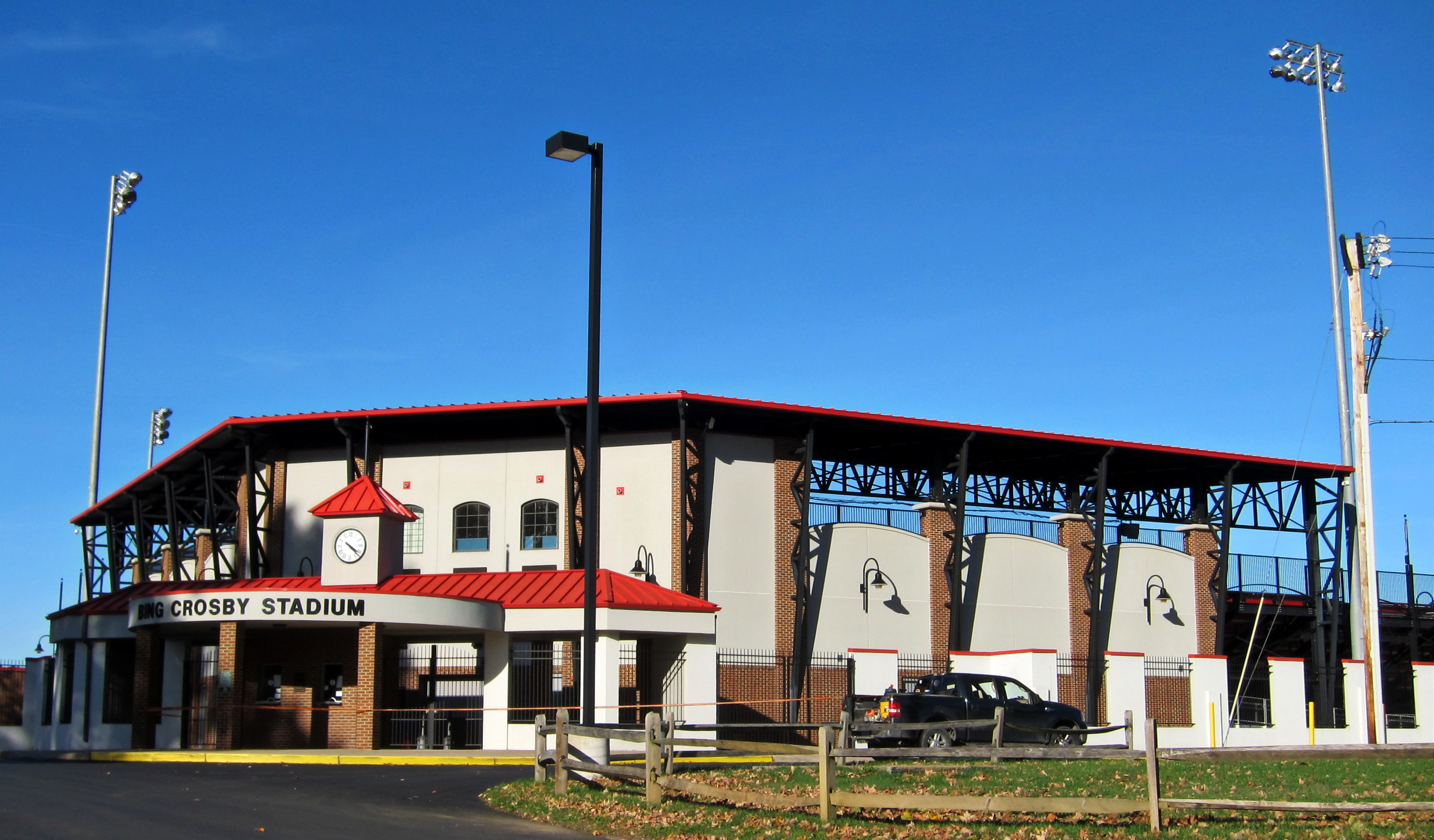 Bing Crosby Stadium, home to the Front Royal Cardinals summer baseball league, at Gertrude E. Miller Park in Front Royal, Virginia. The stadium was named in honor of actor and singer Bing Crosby after he made an appearance in Front Royal and donated money for a new municipal park.